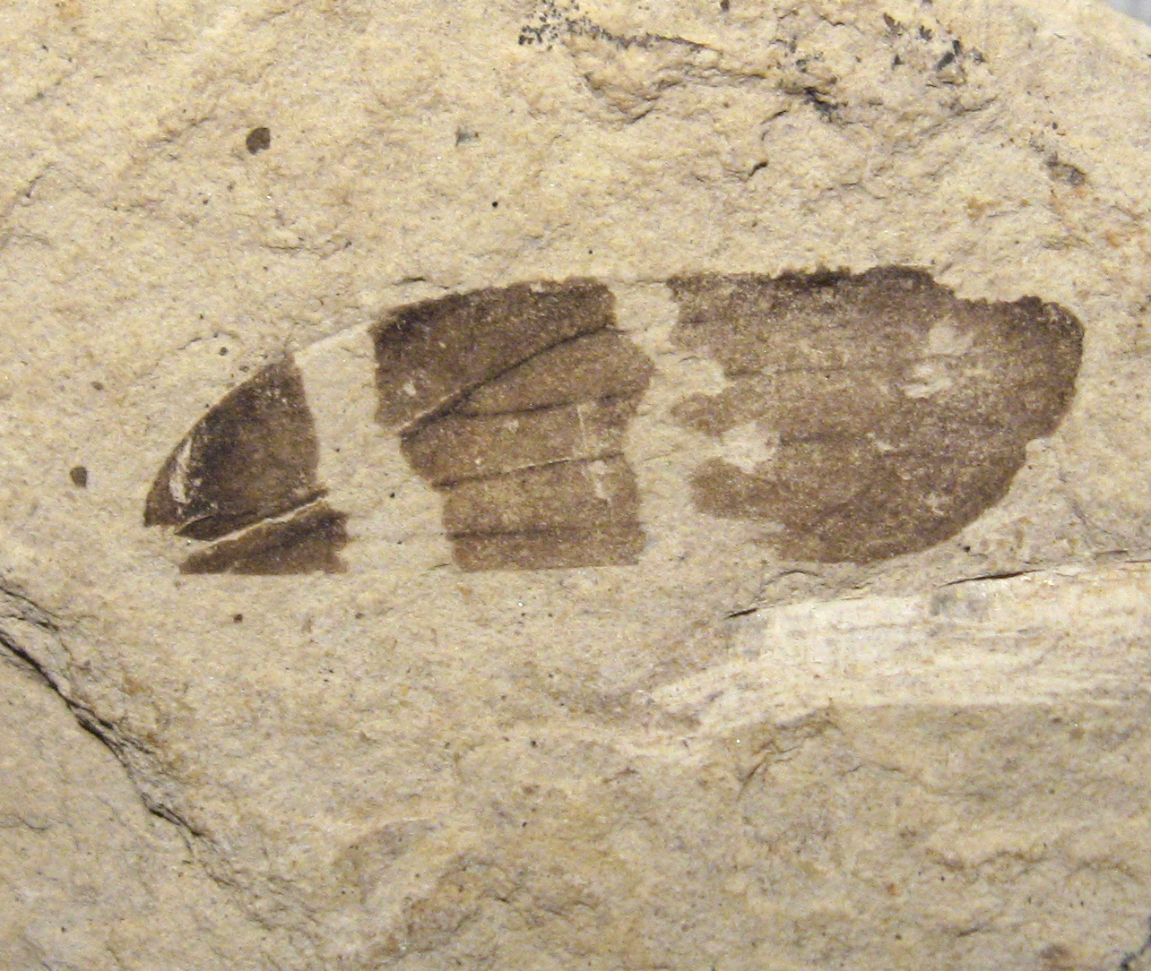 A 1.8cm tall hemelytron (fore-wing) with preserved color-pattering from and undescribed Cercopoidea leafhopper species. Found 7/6/97, "Boot Hill", 49 million years old, Klondike Mountain Formation, Republic, Washington, USA. In private collection.